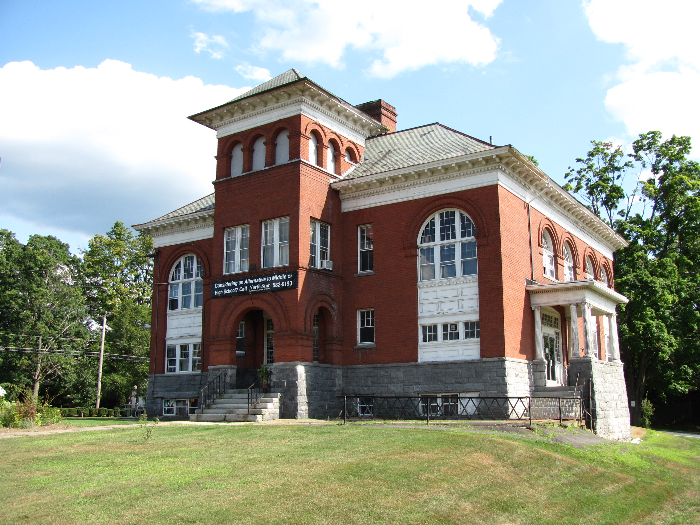 Russell Street School, Hadley Massachusetts - former site of North Star: Self-Directed Learning for Teens